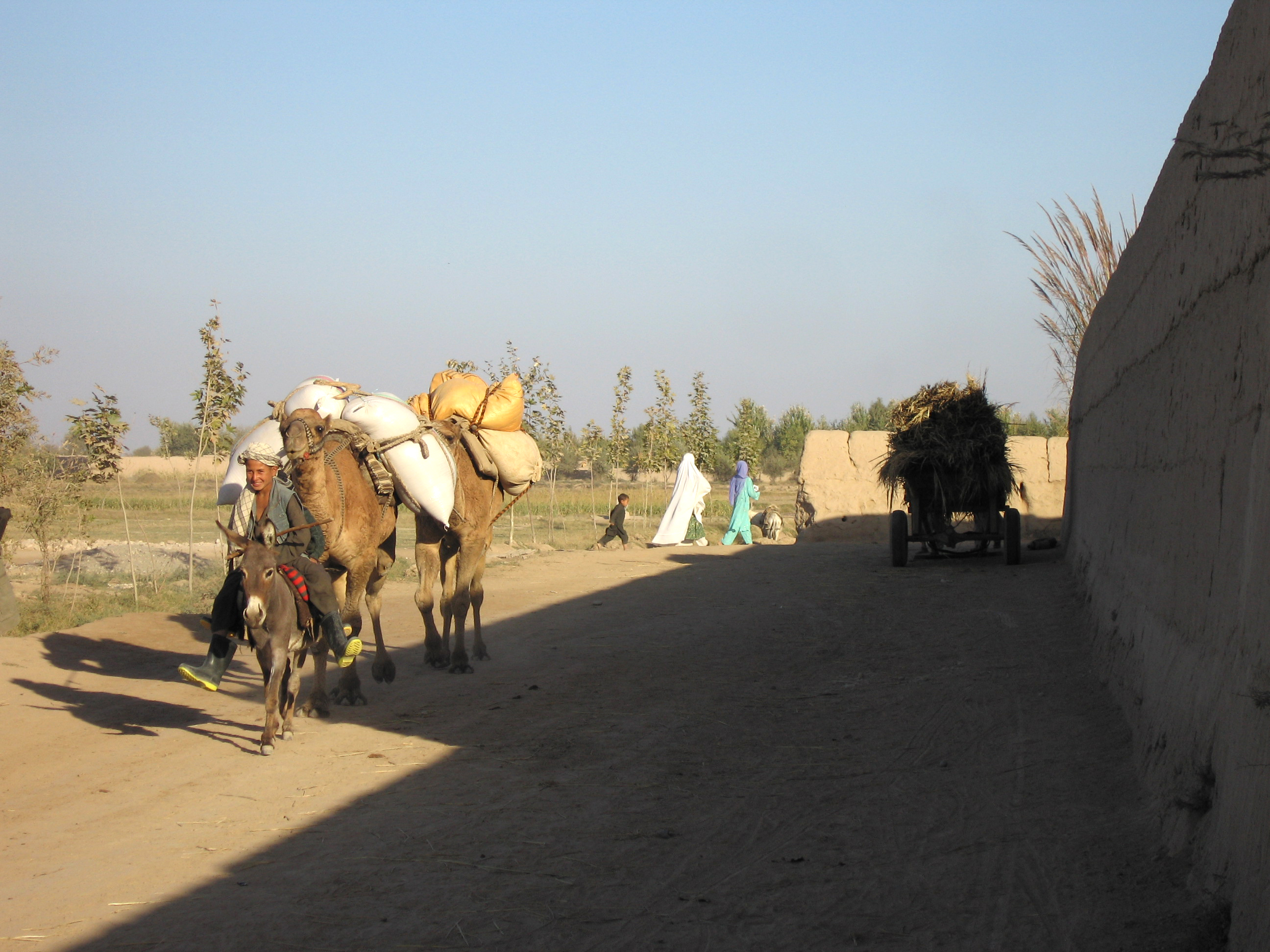 A road in Imam Sahib, Kunduz Province, Afghanistan